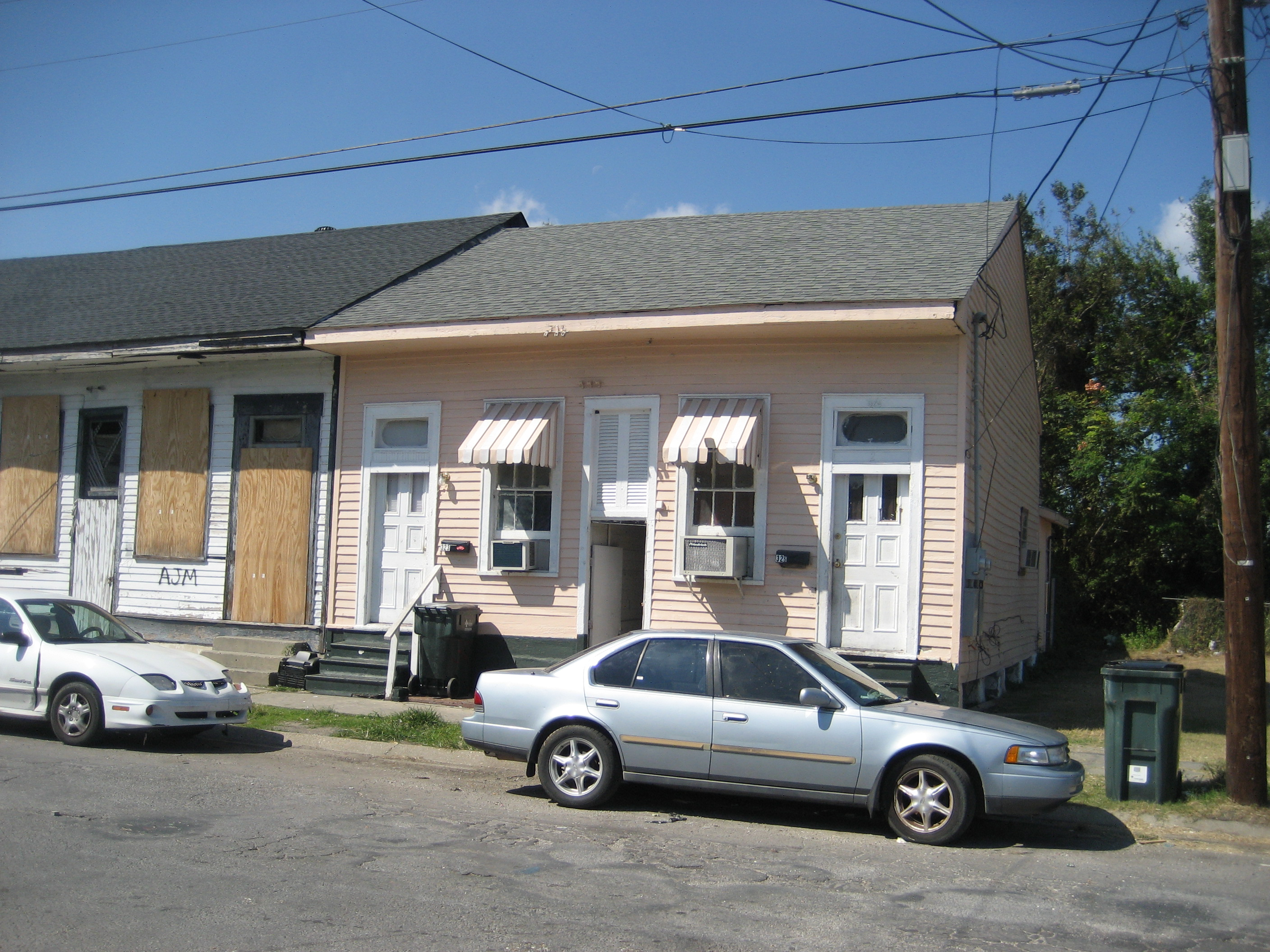 New Orleans: Rare surviving example of 19th century Creole wooden rowhouses with intact "dog-trots" or "dogwalks" passages-- small homes with shared roof seperated by open corridor running from front to back. 300 block of North Miro Street, woods side.